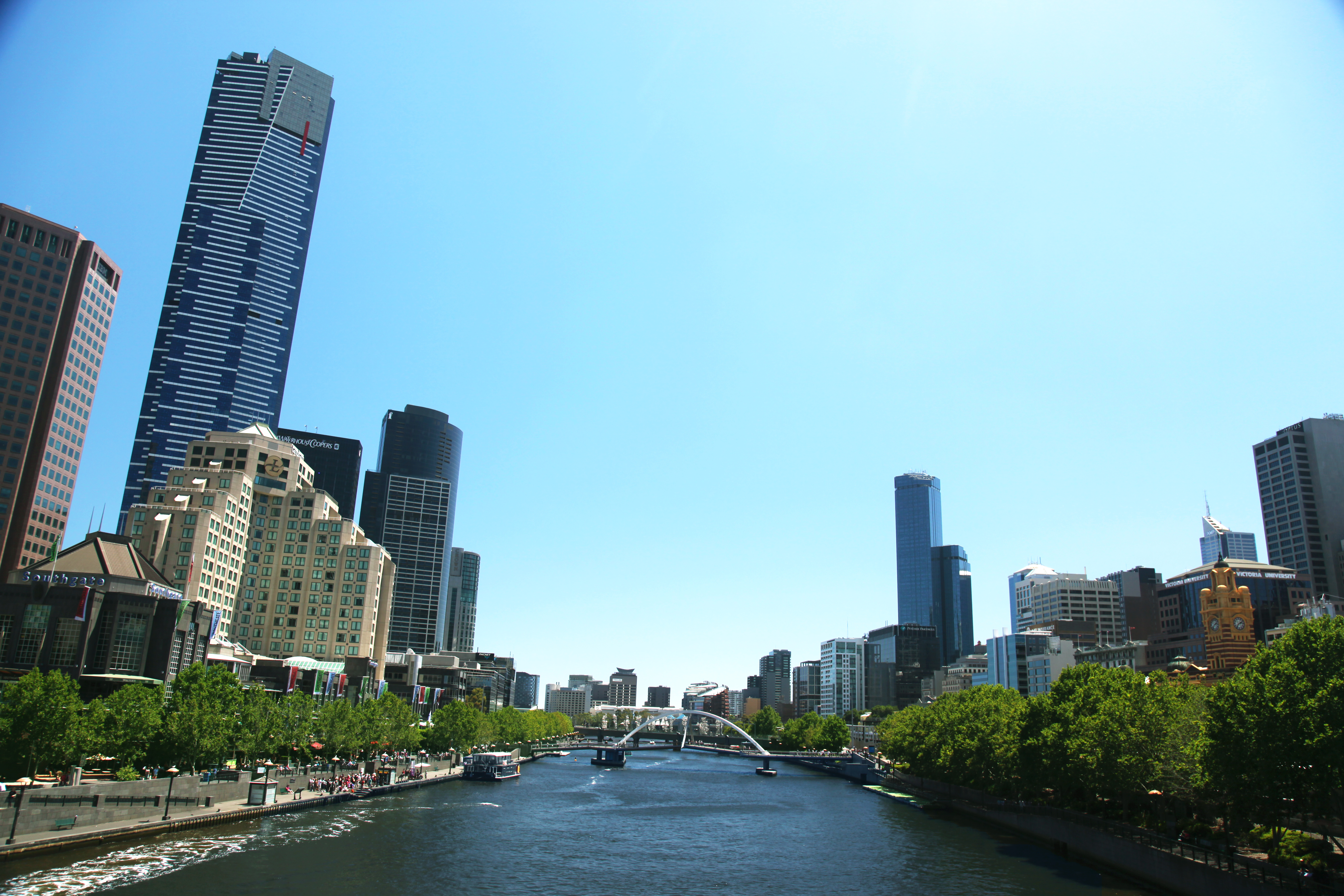 Melbourne skyline and Yarra River in summer (2009)